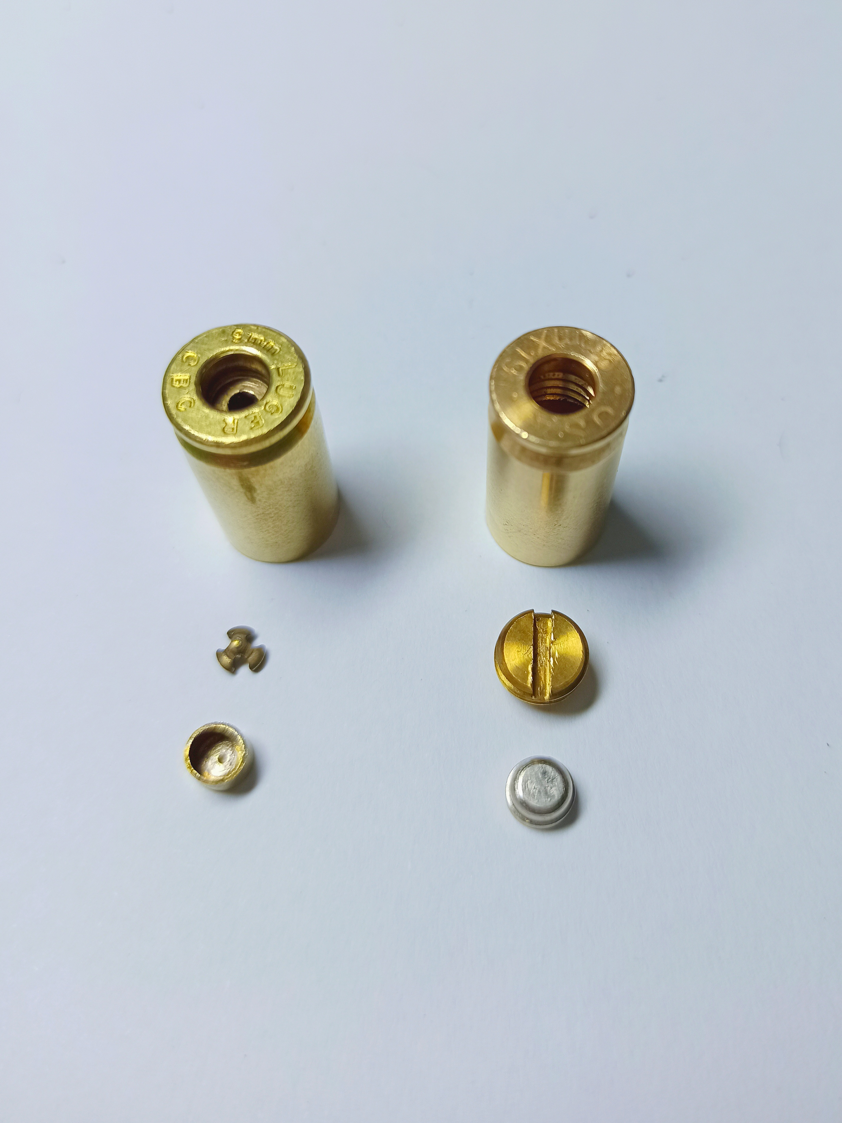 primer of prop bullet